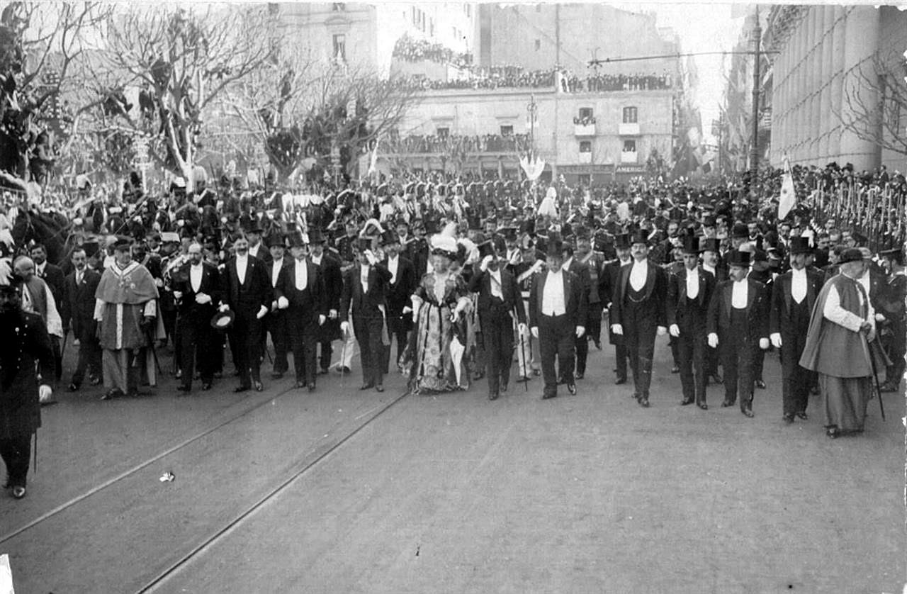 Centenary of the May Revolution, in Argentina.